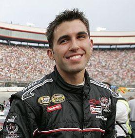 NASCAR driver Aric Almirola beside his racecar. Aric Almirola Fights Through Adversity at Bristol -- Photo by U.S. Army Racing -- August 27, 2007 -- Aric Almirola finished in 36th place in Saturday night\'s Nextel Cup race at Bristol Motor Speedway. [1]